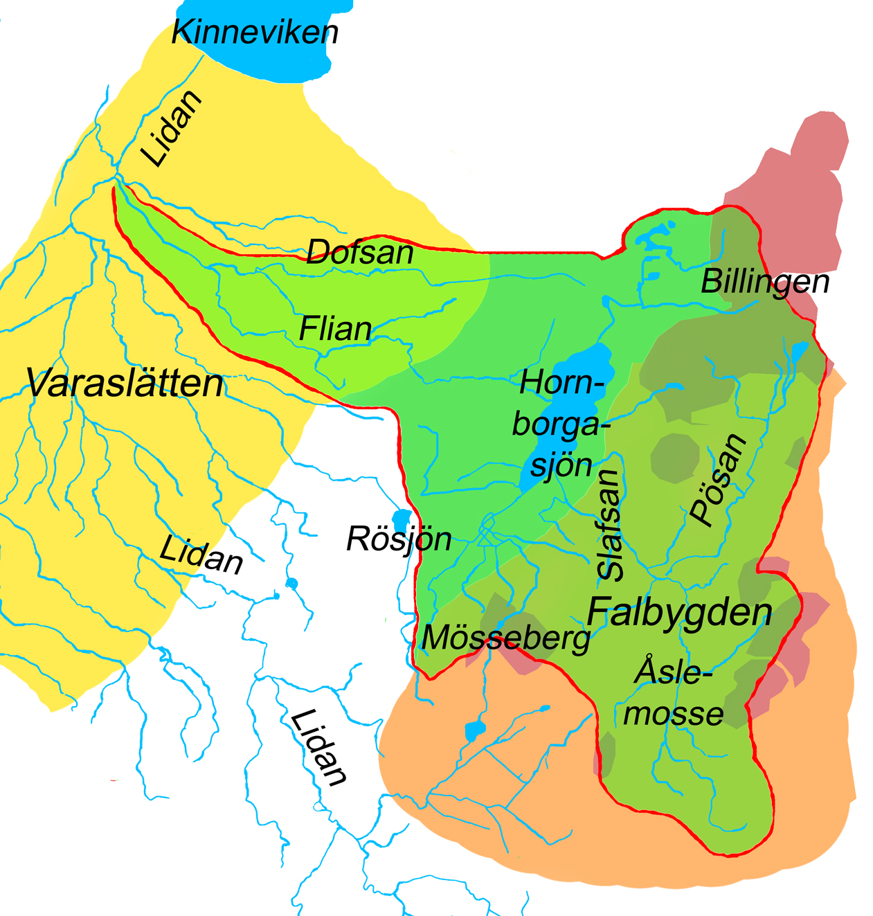 Map of drainage area of the river Flian in Västergötland, Sweden. Scale circa 1:160,000. Flian is a tributary to the river Lidan. The river Lidan and its tributaries and lakes are marked blue. The drainage area of Flian is green with a red border. In the western part of the drainage area, "Varaslätten" (i.e. "The Vara plain") is marked in yellow hue (light green within the drainage area, yellow outside). In the eastern part of the drainage area, the Falbygden area is marked in orange hue (mossgreen within the drainage area, orange outside). The table-mountains of Västergötland is surrounding the Falbygden area and are marked in dark red hue (olive green within the drainage area, dark red outside). The names are given for Lidan, Flian, and its tributaries Dofsan, Slafsan, and Pösan. The names are also given for the lakes Hornborgasjön and Rösjön, and also Lidan's recipient Kinneviken (a part of lake Vänern). One bog within the drainage area are named: Åsle mosse. The table mountains Billingen and Mösseberg are also named.